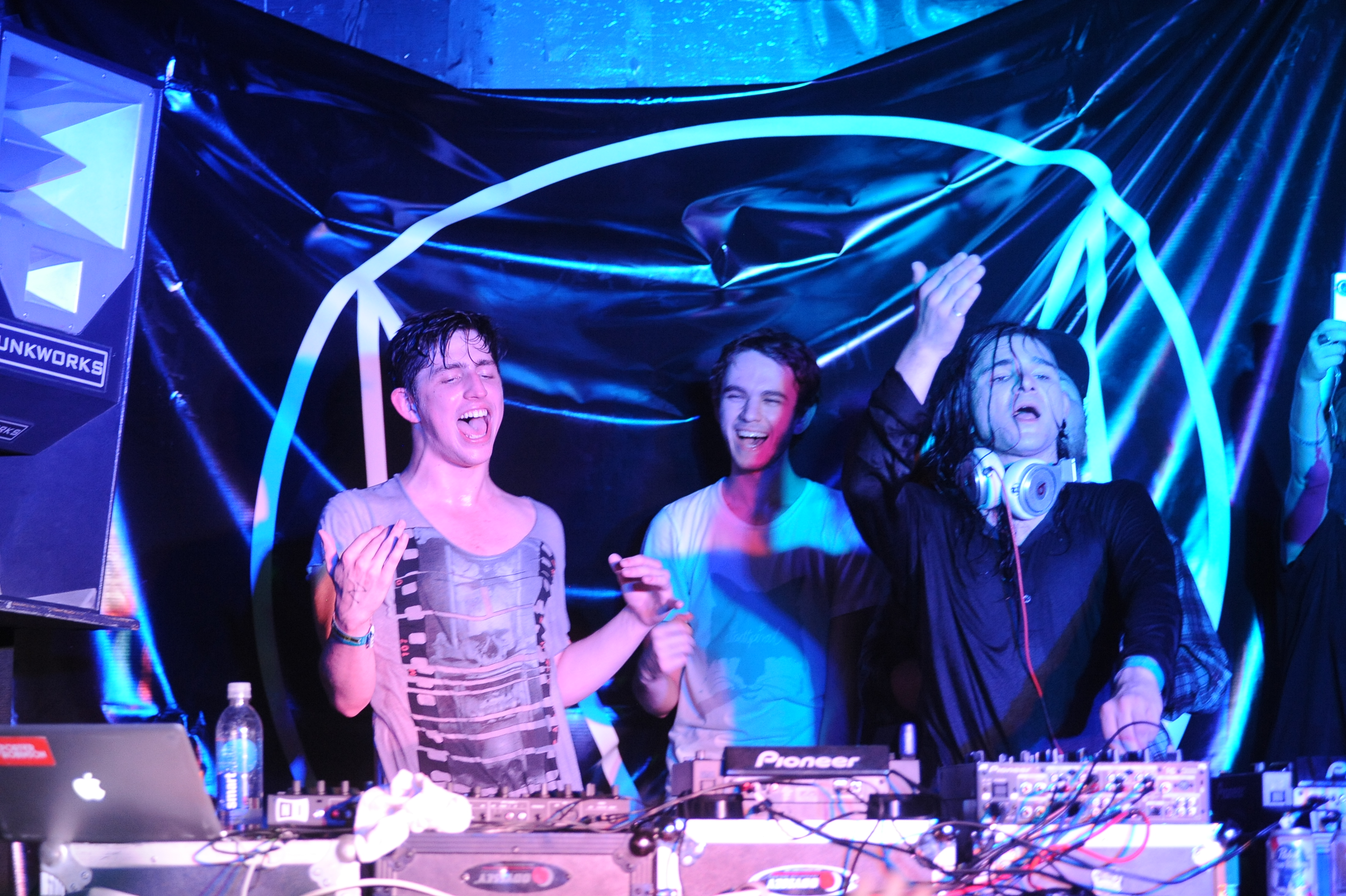 (From left to right) Porter Robinson, Zedd, and Skrillex perform at the 2012 South by Southwest (SXSW) on March 16, 2012.